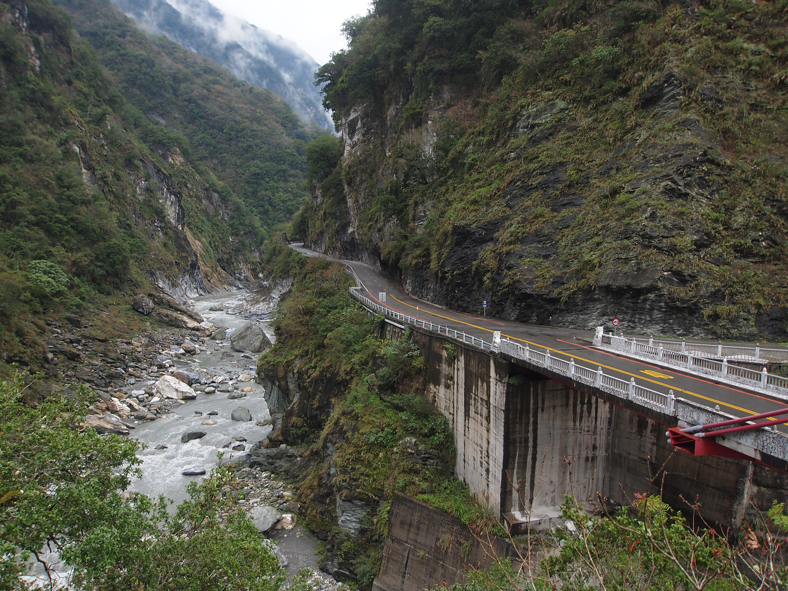 中横公路 - Central Cross-Island Highway - 2012.02